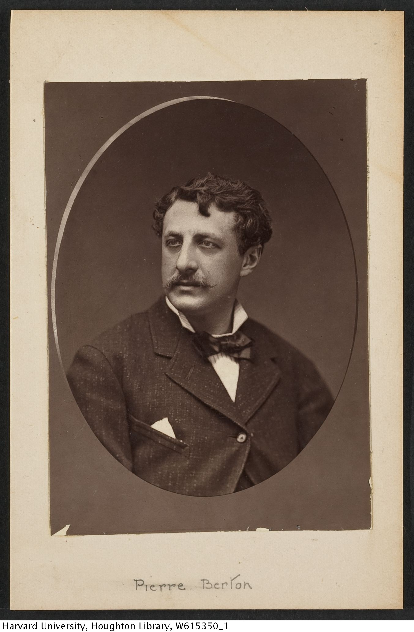 Cabinet card image of French actor and playwright Pierre Berton. TCS 1.2448, Harvard Theatre Collection, Harvard University